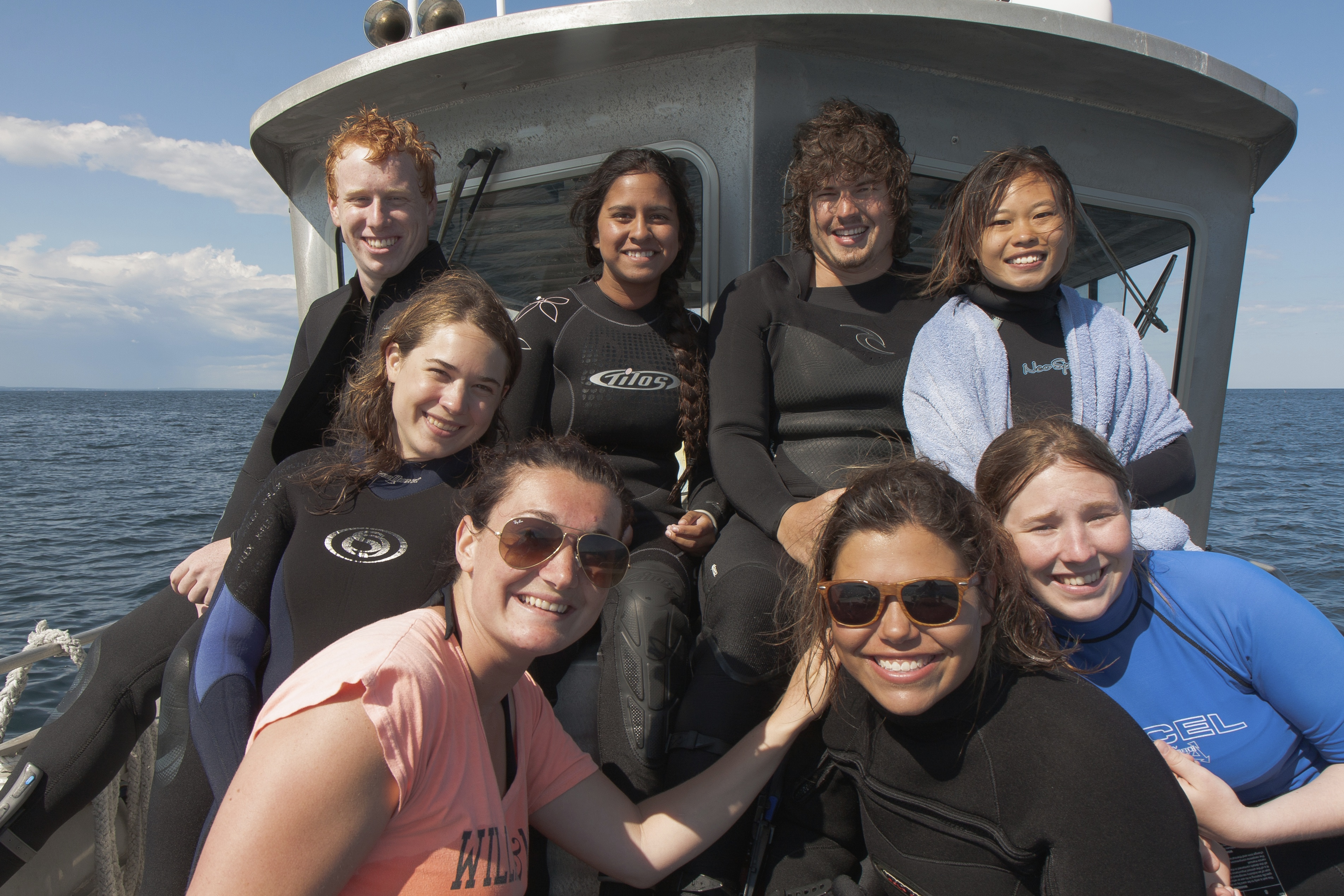 Students aboard the R/V JB Heiser as part of the Underwater Research diving class.